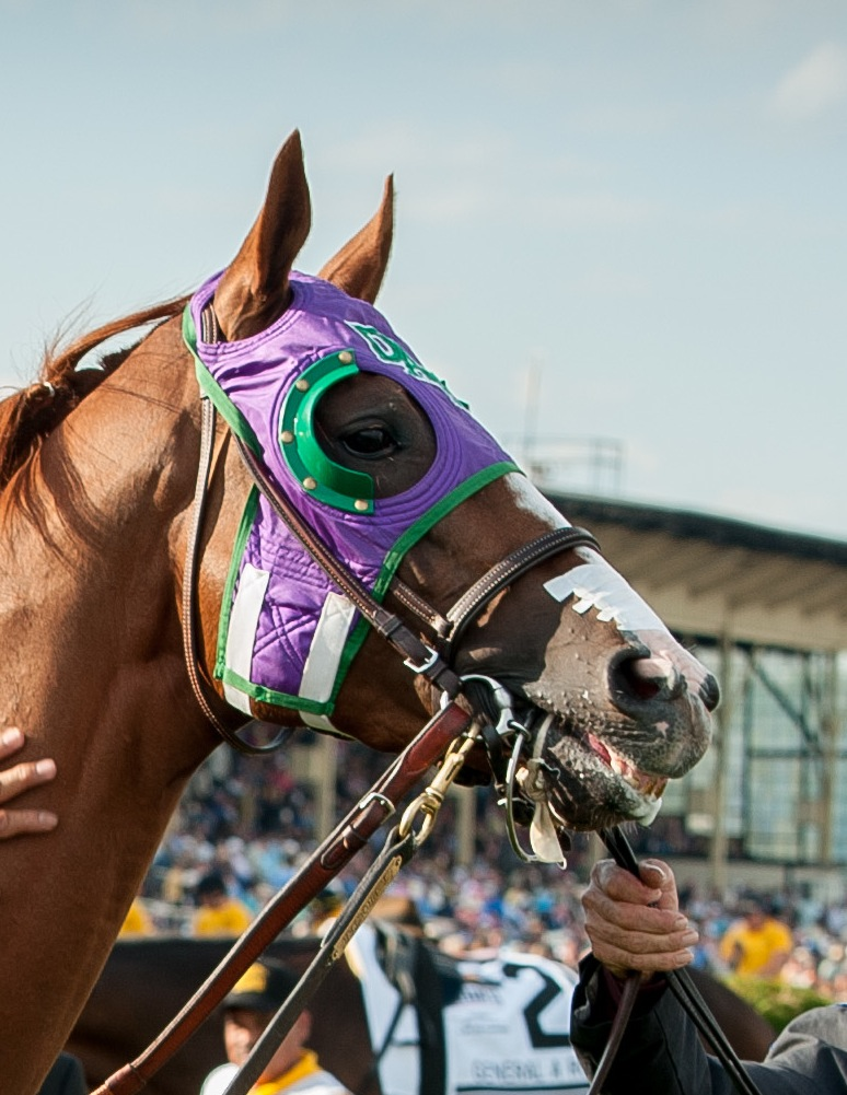 Detail of nasal strip worn by California Chrome at the 139th Preakness Stakes. by Jay Baker at Baltimore, MD.